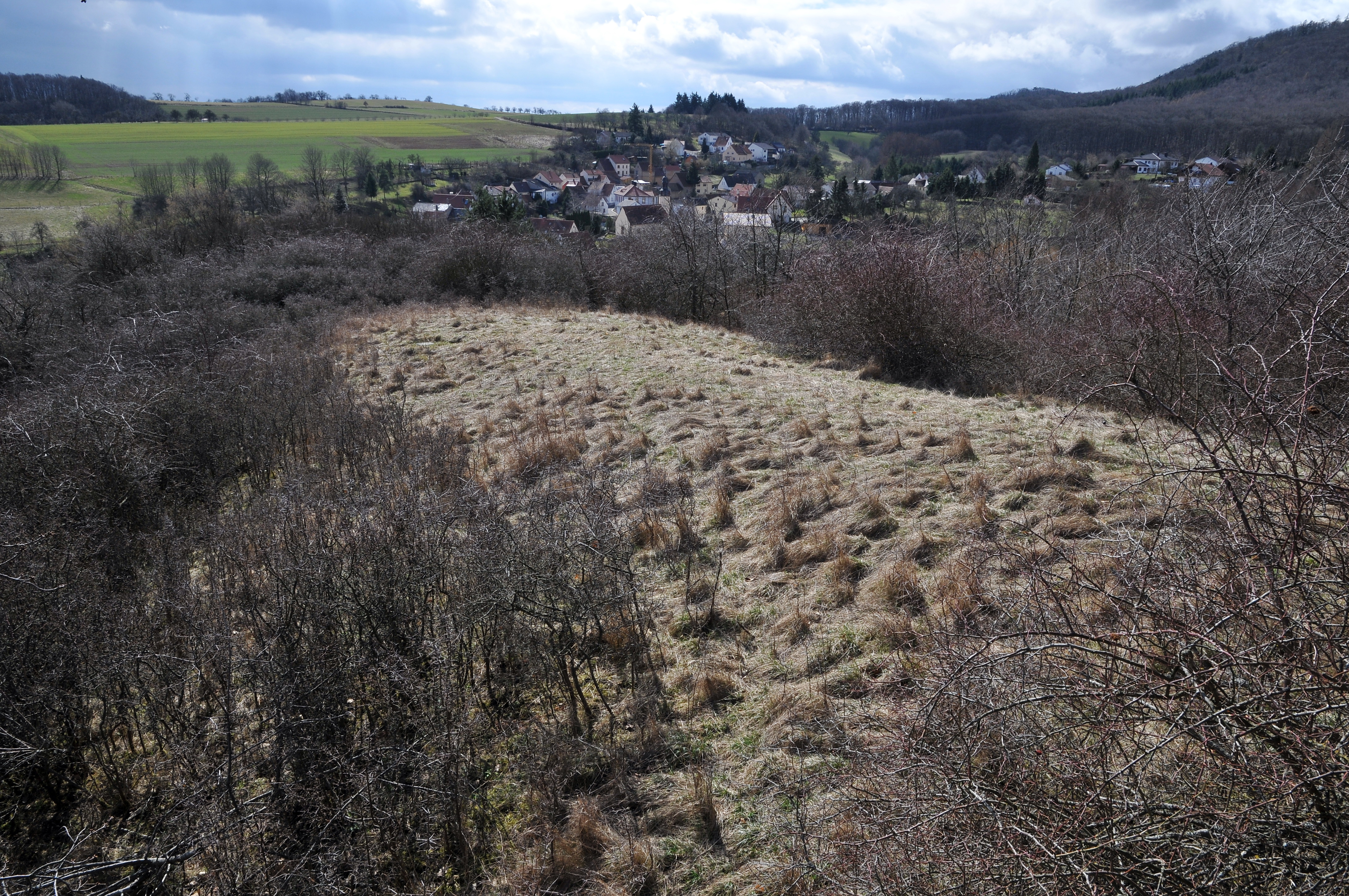 Place where castle "Kesselburg" once stood